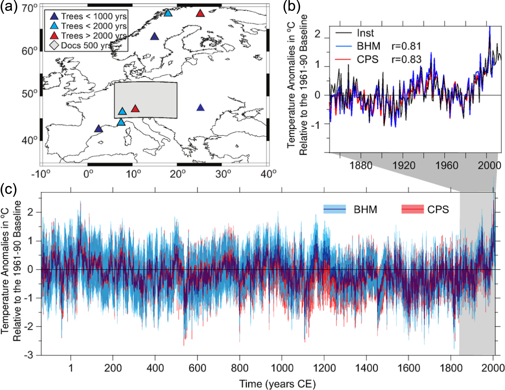 Quote: "a) Spatial distribution of proxy records used in the reconstructions. (b) Comparison of the instrumental mean summer temperature anomalies for Europe (1850–2015) with the mean BHM-based and CPS reconstruction anomalies 1850–2003. (c) CPS- and area-weighted mean BHM-based reconstructions of European summer temperature anomalies and 95% confidence intervals (shading in respective colour) over the period 138 BCE–2003 CE (all anomalies are with respect to the 1961–90 climatology)."